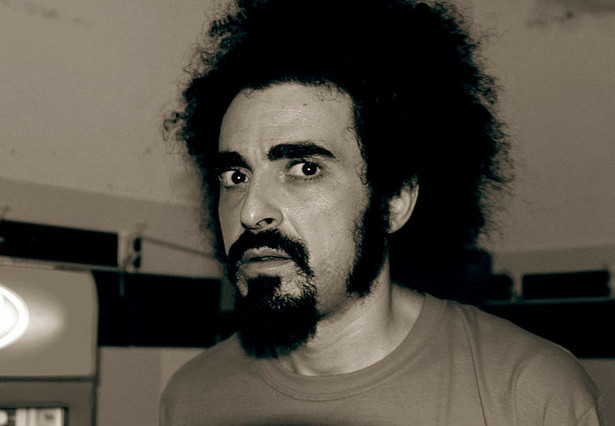 Caparezza